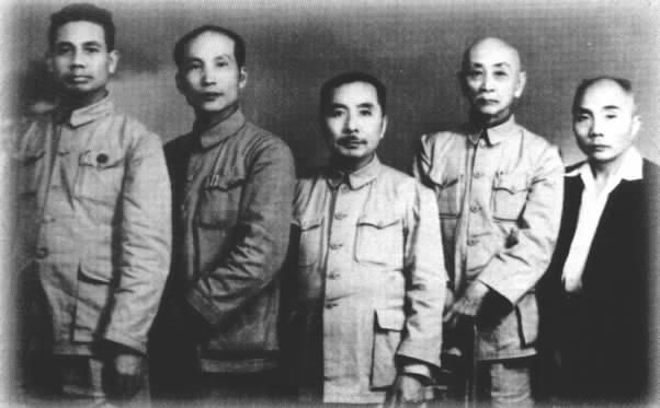 Members of China Zhi Gong Party who attend CPCC first first plenary session in 1949